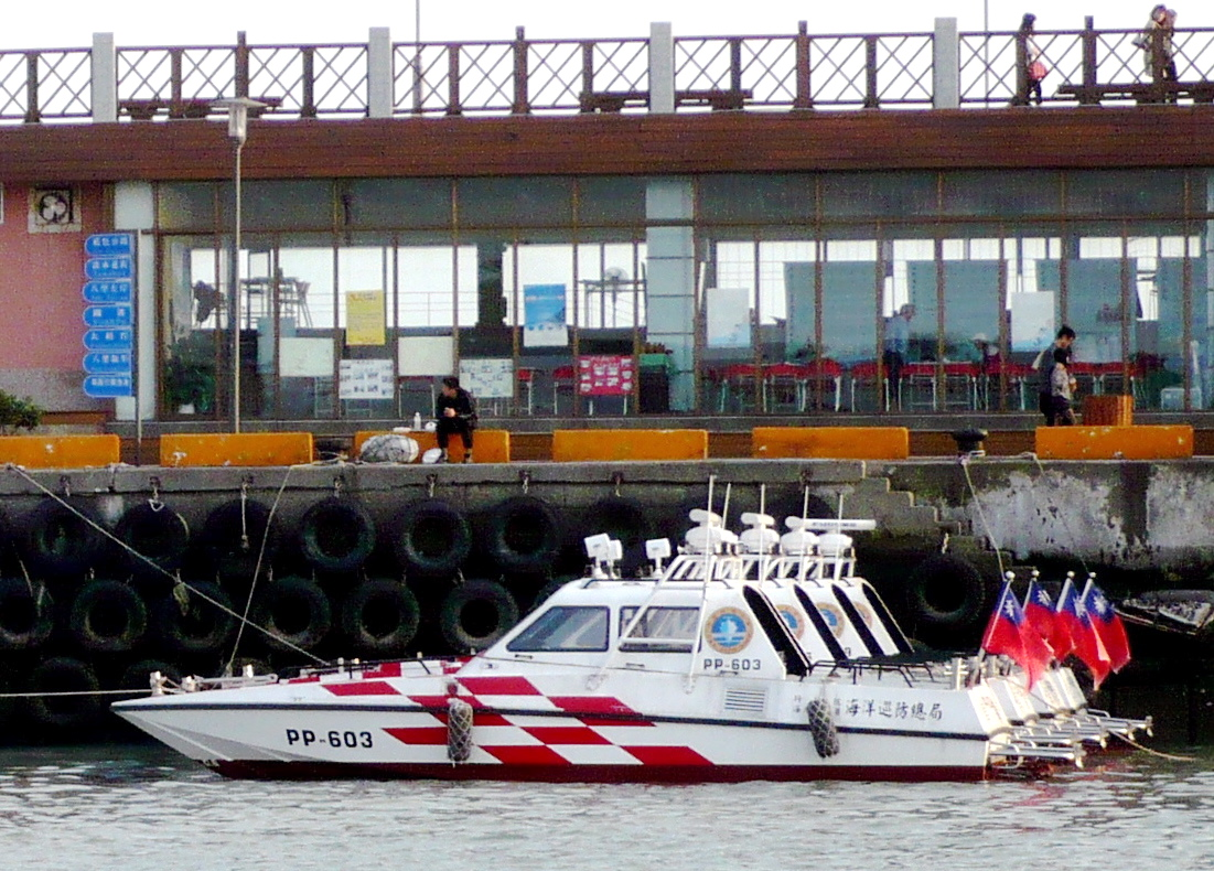 ROC (Taiwan) Coast Guard boats at Danshuei Fisherman's Wharf.